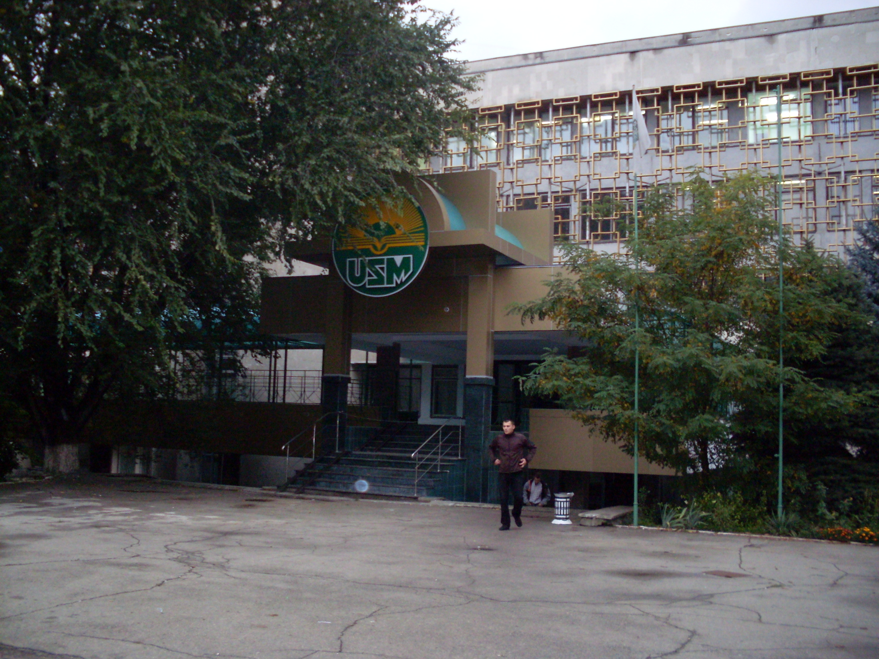 State University of Moldova